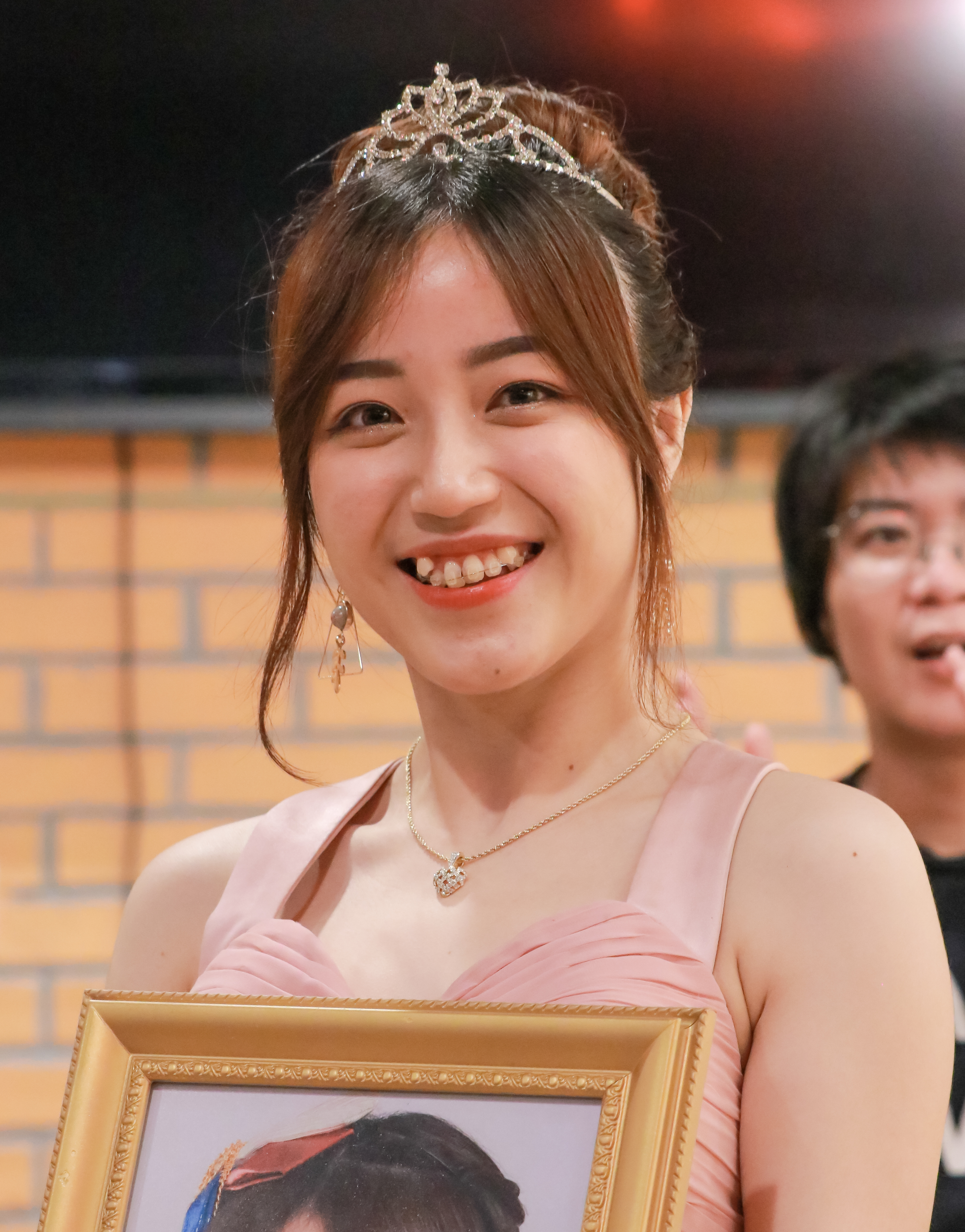 Sinka Juliani on 29 September 2019